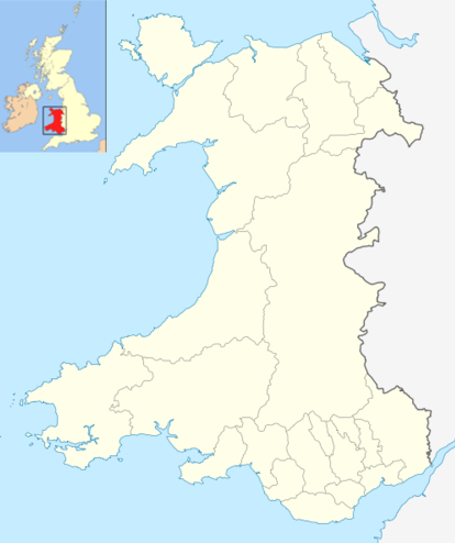 Wales locator Equirectangular projection, N/S stretching 163 %. Geographic limits of the map: N: 53.5° N S: 51.3° N W: 5.5° W E: 2.5° W